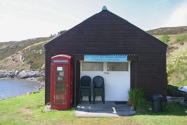 The post office and café for day visitors to the island of Tanera Mòr. A private postal service is permitted for this remote island. Its stamps are sought after by philatelists across the world.